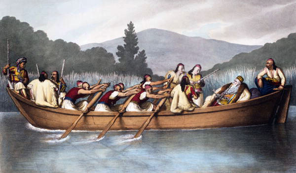 watercolor